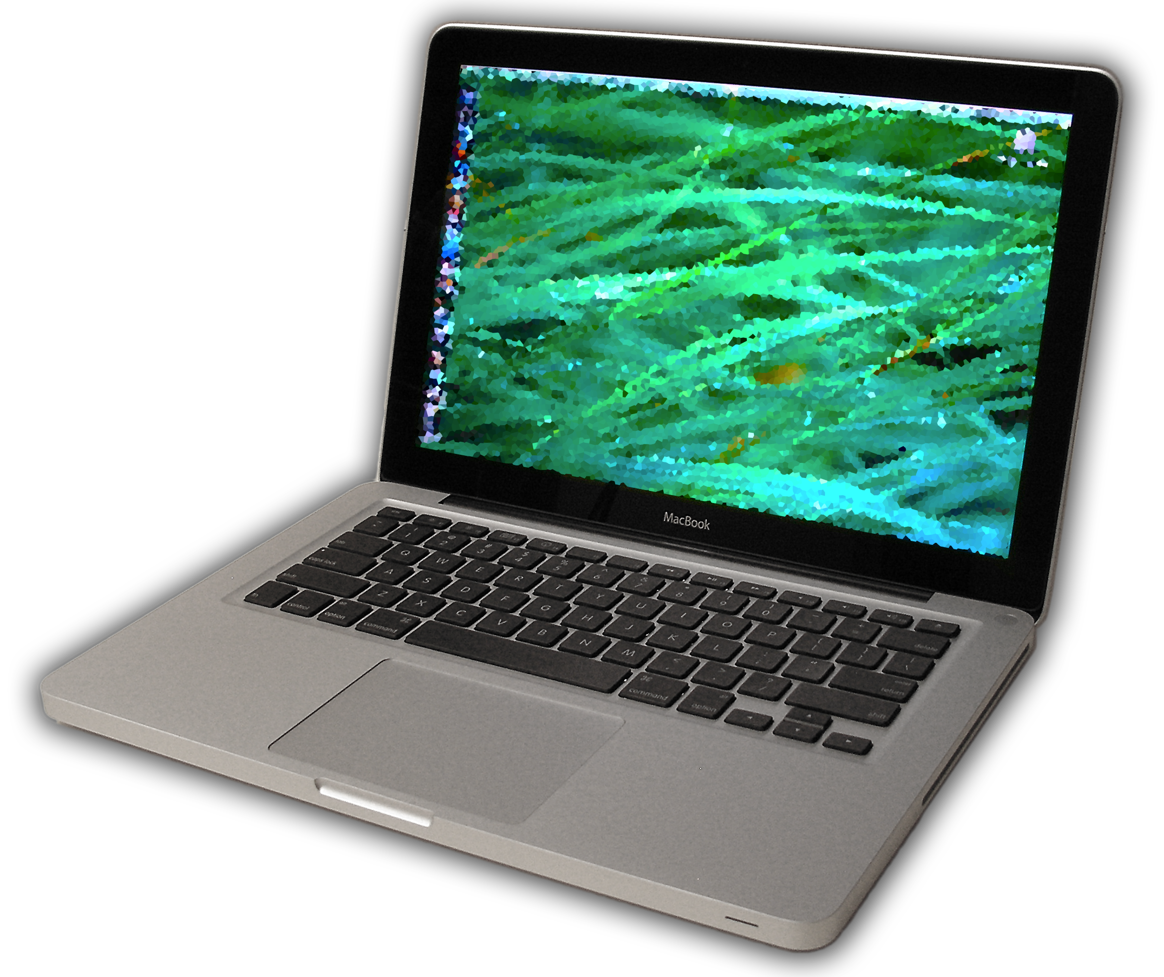 An Apple MacBook in an aluminium casing.